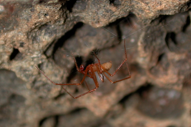 male Nesticus sp from northern California.